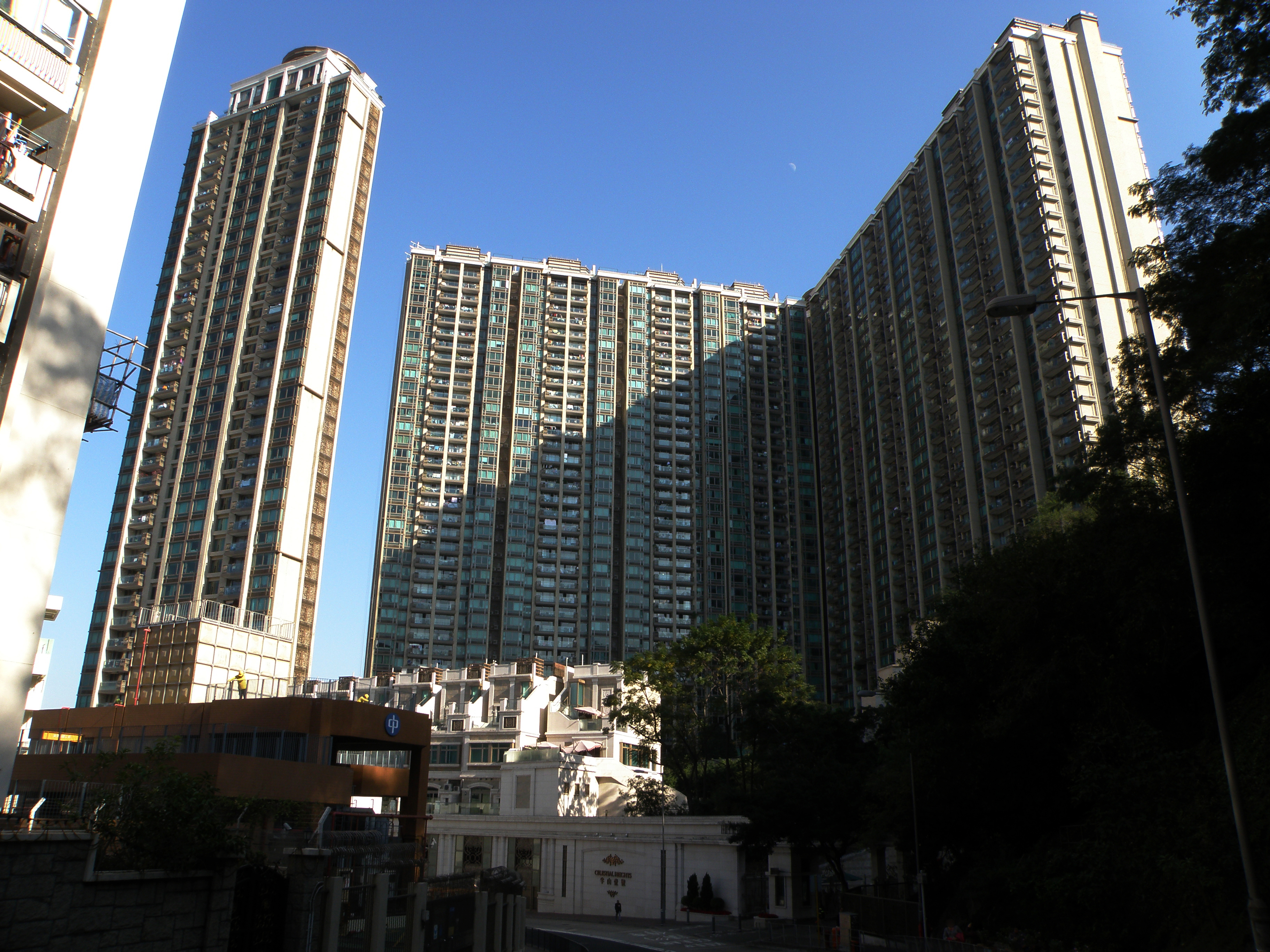 Celestial Heights in Ma Tau Wai, Hong Kong.